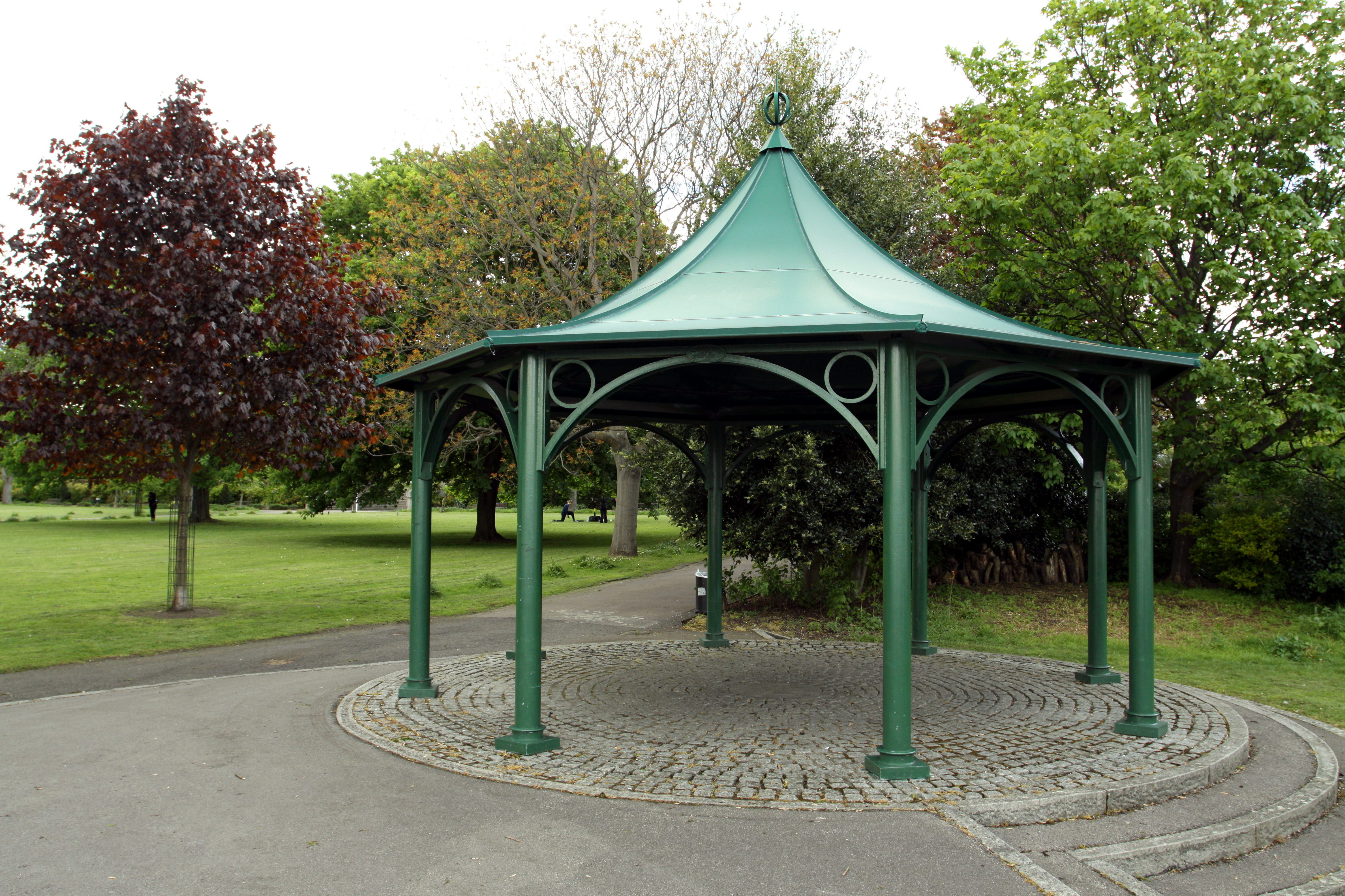 King Edward VII Memorial Park during Themes Path in London Borough of Tower Hamlets, London, England, Great Britain The making of this file was supported by Wikimedia UK.